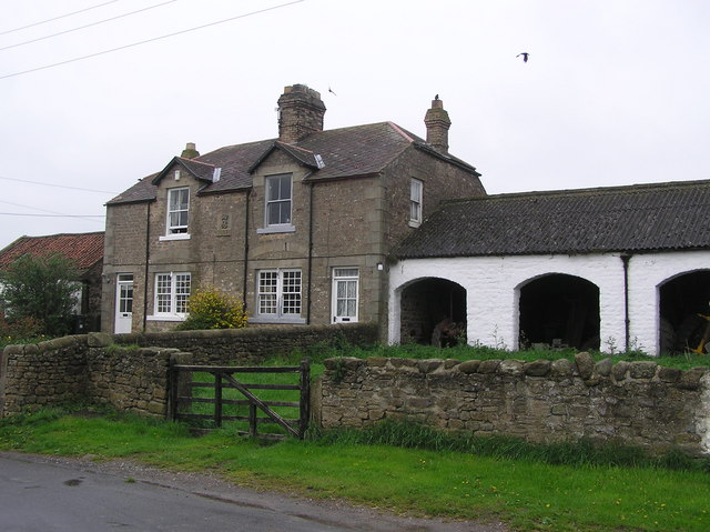 Morton Tinmouth : Raby Estates Houses ; Dated 1907. The village of Morton Tinmouth was much larger in the medieval period (1066-1540). It has now shrunken in size, and consists of North and East Farm.